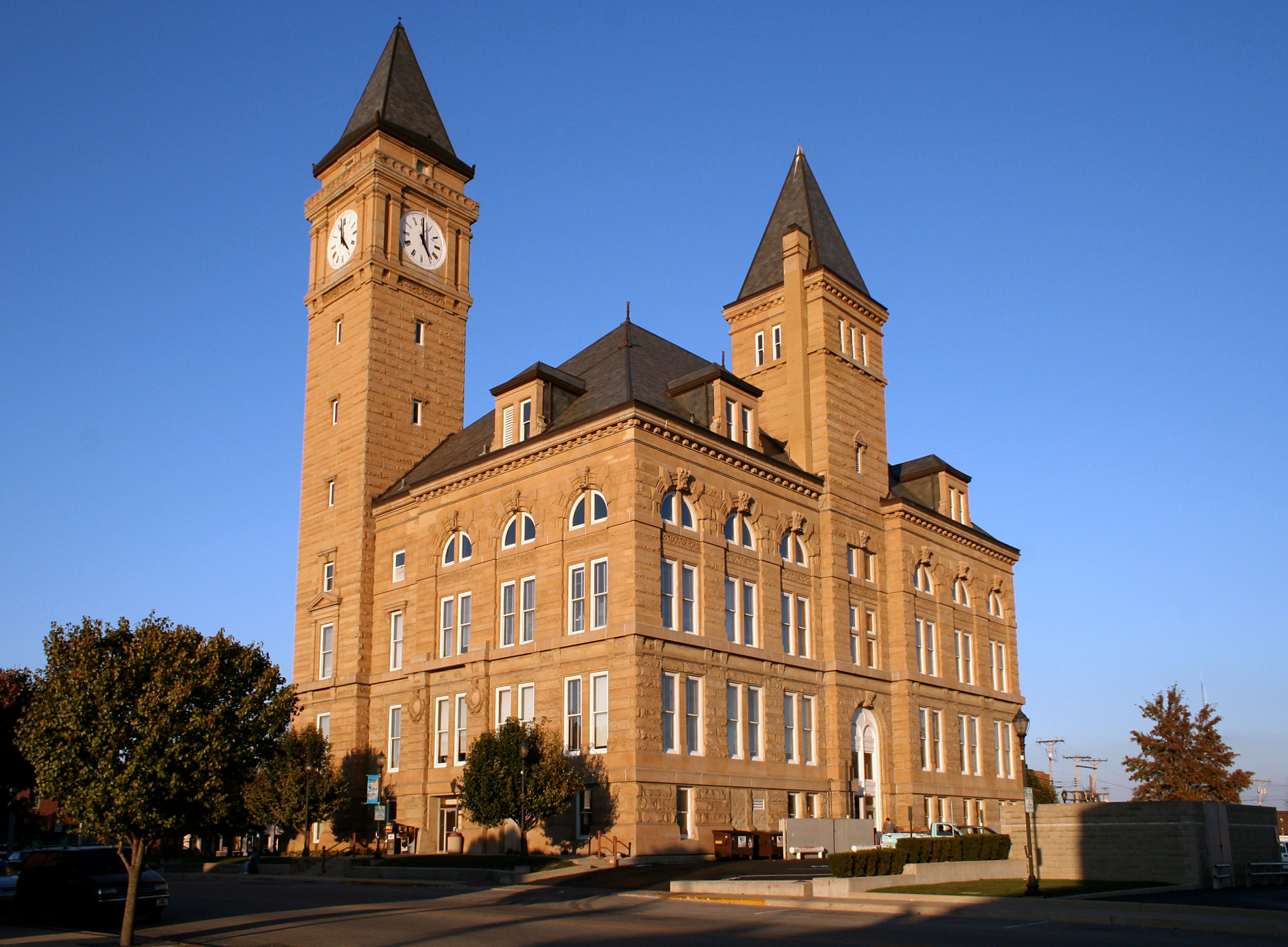 Tipton County courthouse in Tipton, Indiana. A plaque in front reads: TIPTON COUNTY COURTHOUSE Romanesque Classial Revival Style building designed by Adolph Scherrer, architect of the 1888 Indiana State Capitol. It is Tipton County's third courthouse and was completed, 1894; placed in National Register of Historic Places, 1984; resorted, 1988-1991.